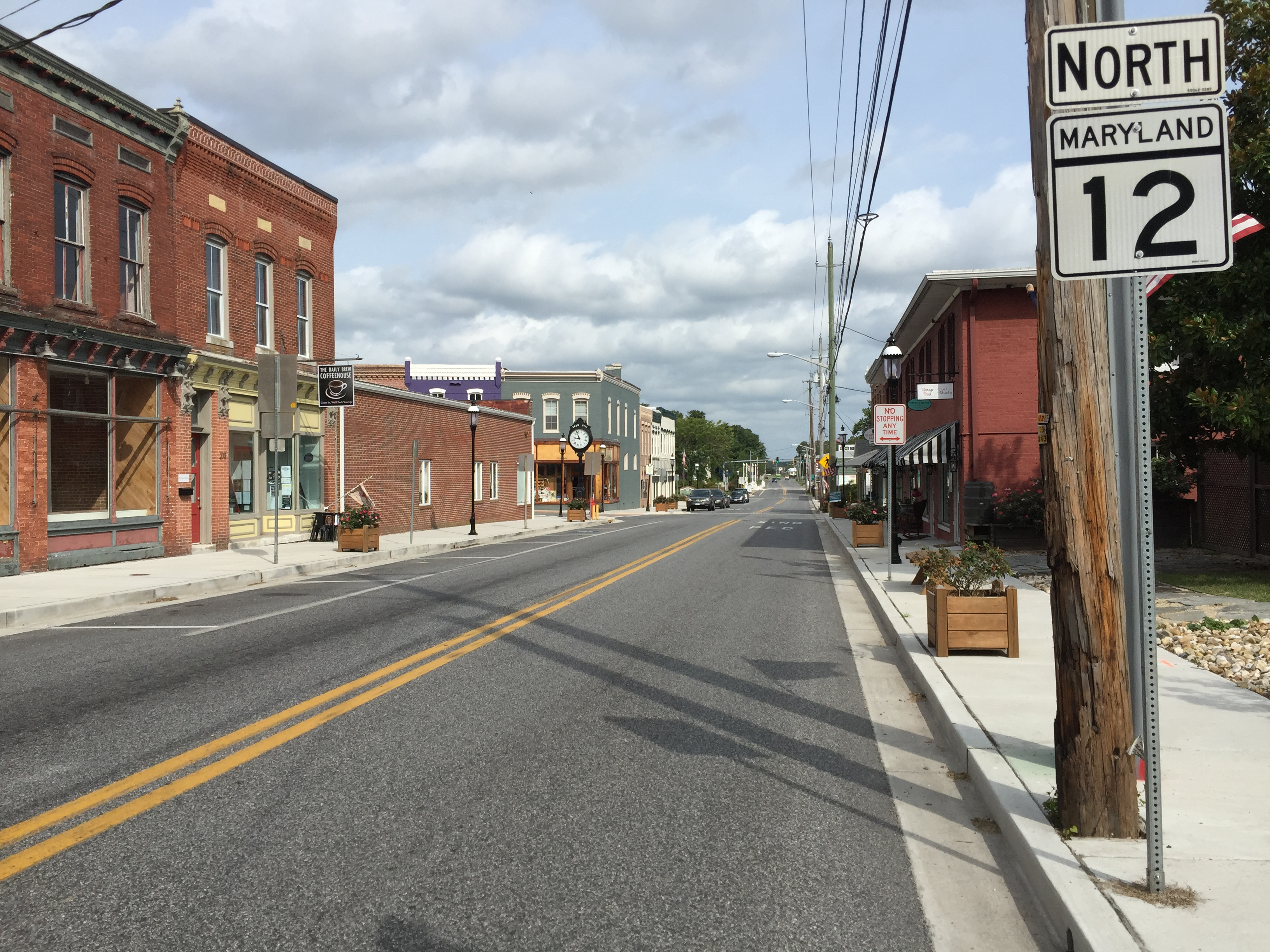 View north along Maryland State Route 12 (Washington Street) at U.S. Route 113 Business (Market Street) in Snow Hill, Worcester County, Maryland